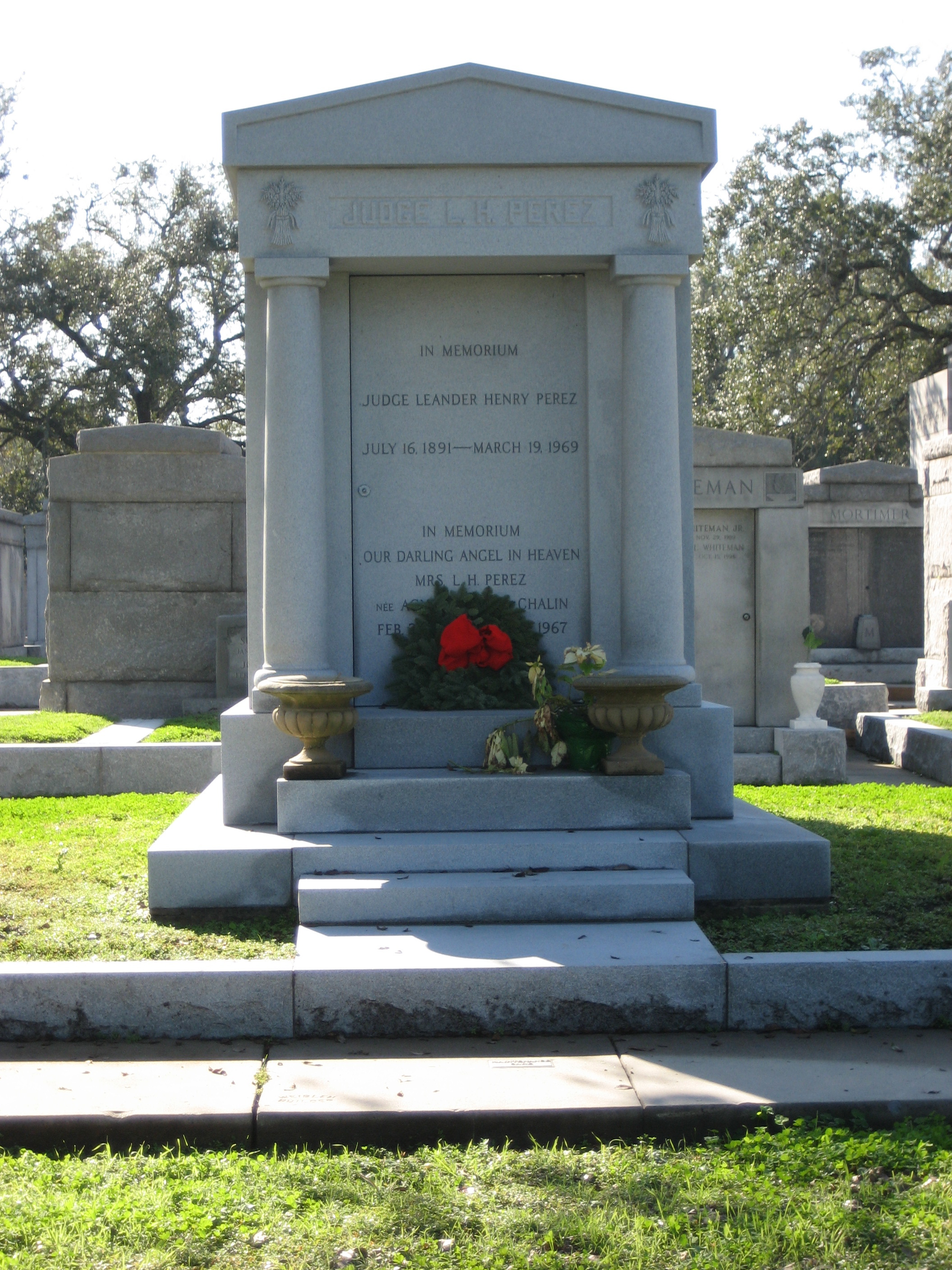 Metairie Cemetery, New Orleans Tomb of famous or infamous Plaquemines Parish boss Judge Leander Perez